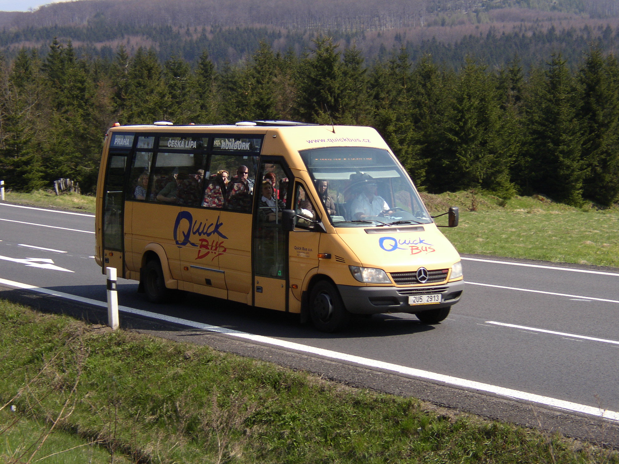 Quick bus,Mercedes 616CDI Sprinter, Czech republic